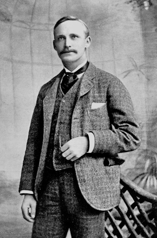 Sport, Golf, circa 1895, English born golfer J,H,Taylor, the Winchester professional, who won the Brtish Open Golf Championship 3 times in 1894,1895 and 1900